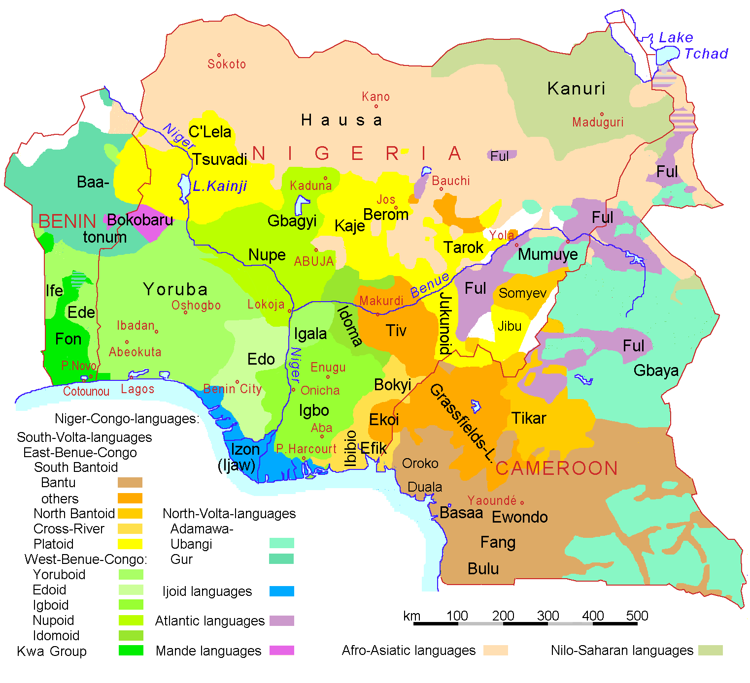 Map of languages of Nigeria, Cameroon, and Benin, showing subgrooups of the systematics of the Niger-Congo-family such as exmples of the Atlantic branch (Ful), the Mande branch (Bokobaru), the North-Volta-group of the Volta-Congo-branch (parts of Kru and of Adamawa-Ubangui), of the South-Volta Group most of West Benue, the whole Platoid, Cross River, and North Bantoid groups, all non-Bantu of the South Bantoid Group, and the northwestern edge of the Bantu area.